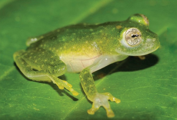 Examples of amphibians recorded in the Serra da Mocidade mountain range.